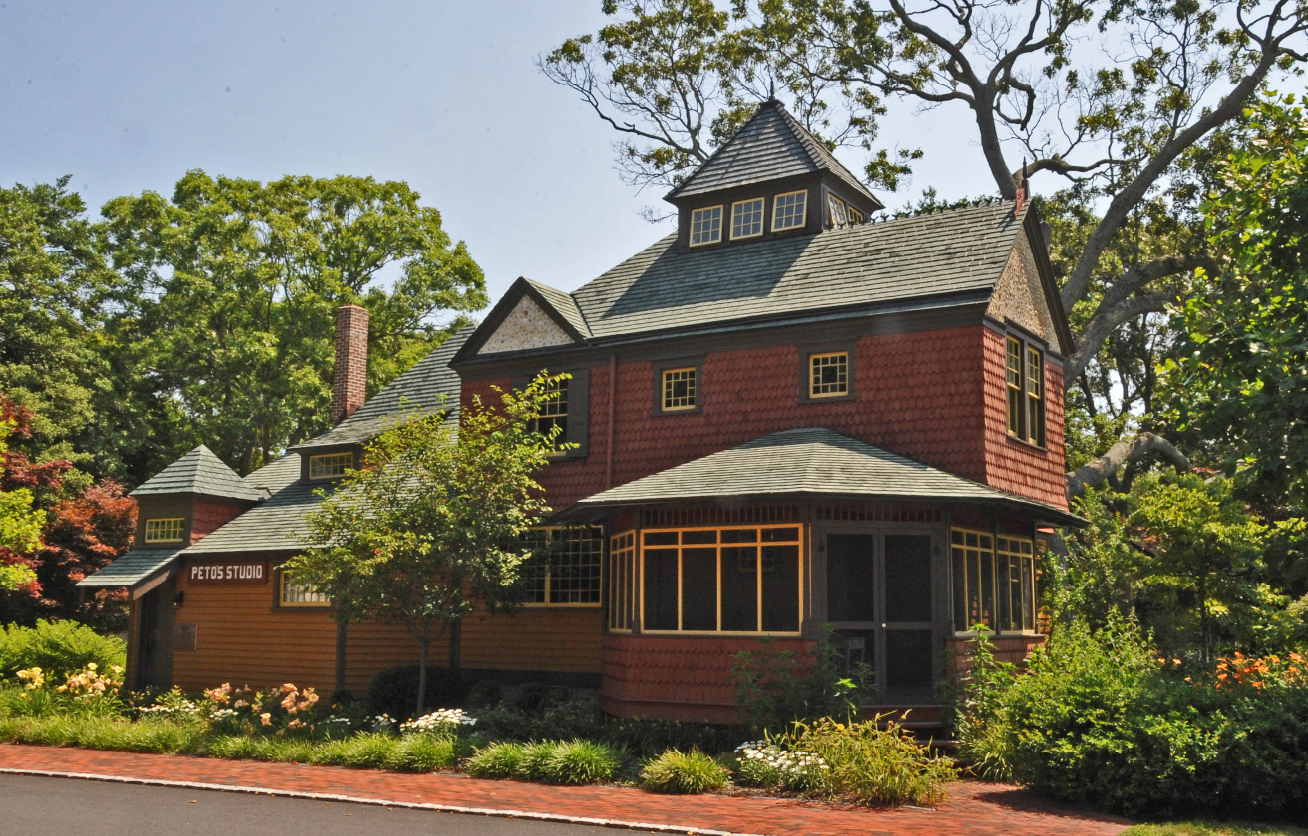 HOUSE AND STUDIO OF JOHN FREDERICK PETO (1854-1907) A RENOWNED AMERICAN STILL LIFE PAINTER BORN IN PHILADELPHIA